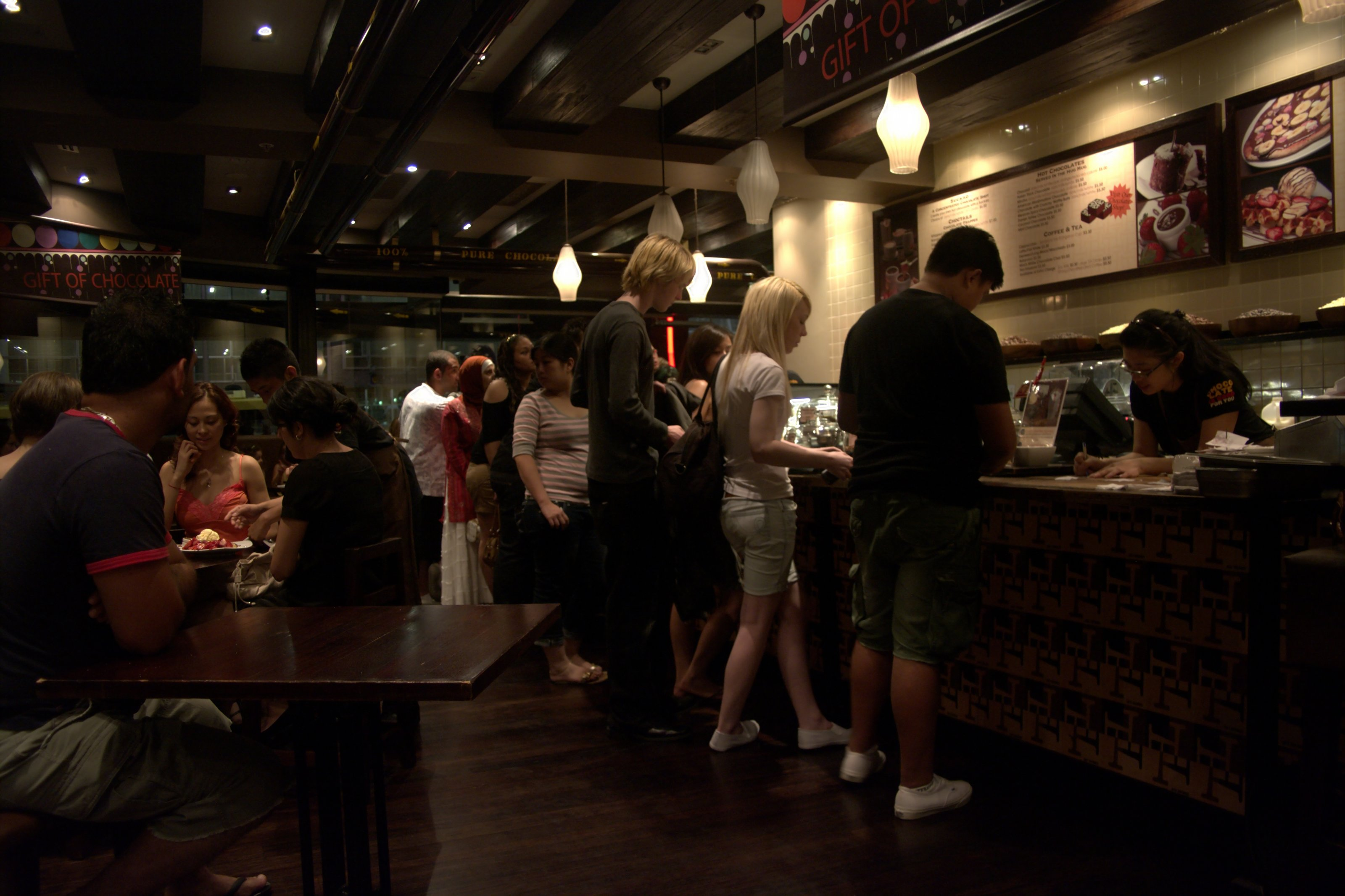 Photograph of the interior of a Max Brenner chocolate store in Parramatta, NSW, Australia